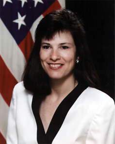 Nancy P. Dorn (b. 1958)